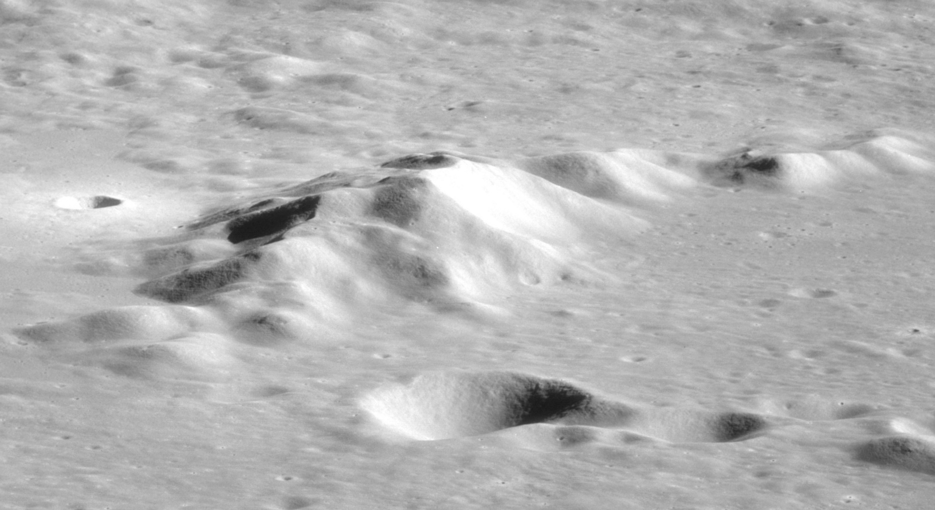 Oblique view of the central peak of Keeler, on the far side of the moon.